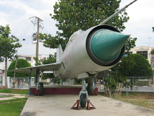 MiG-21 fighter aircraft on display at the museum in Bien Hoa, Vietnam